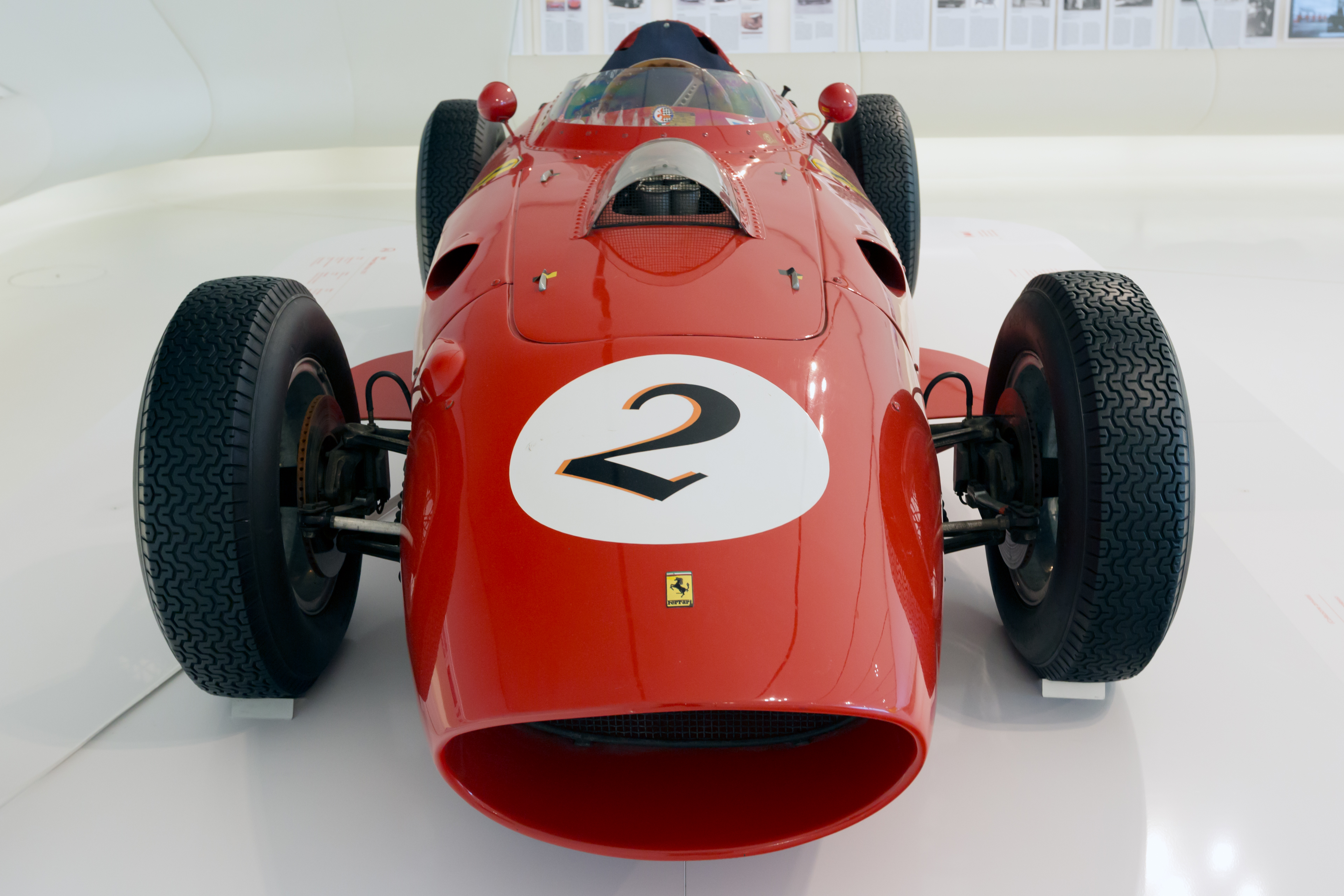 1957 Ferrari 246 F1 "Dino"